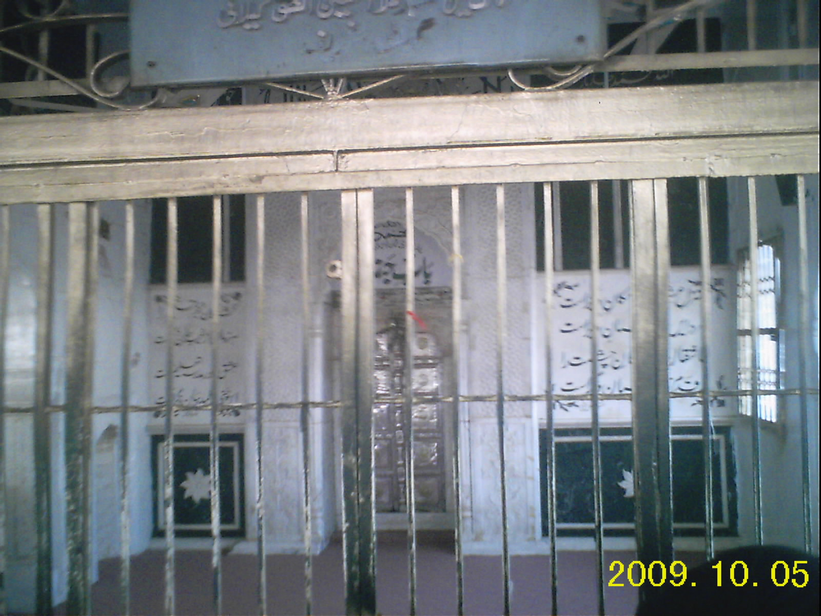 Jannati (Bahishti) Darwaza the door of paradise